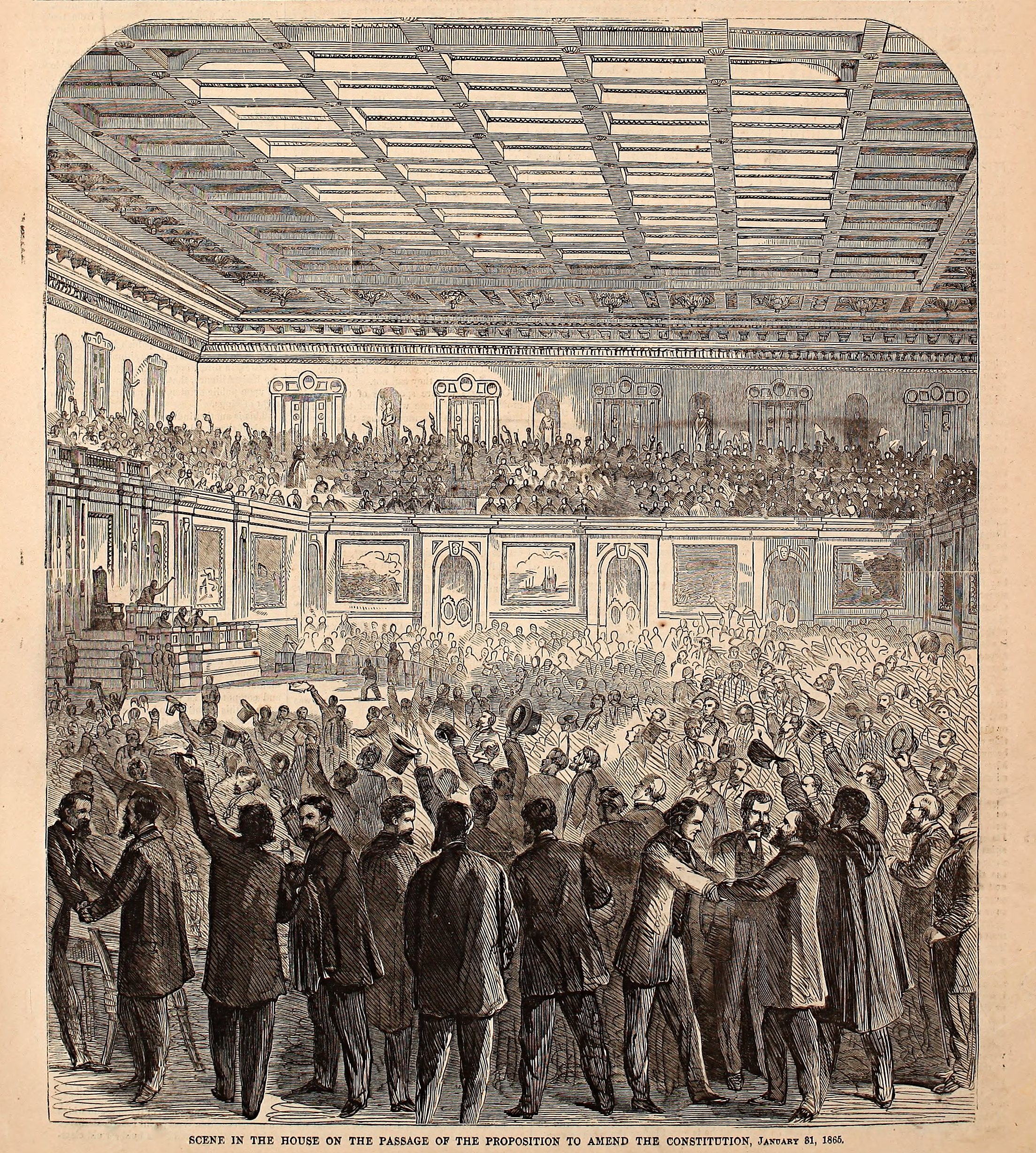 Harper's Weekly cartoon depicting celebration in the House of Representatives after adoption of the Thirteenth Amendment.